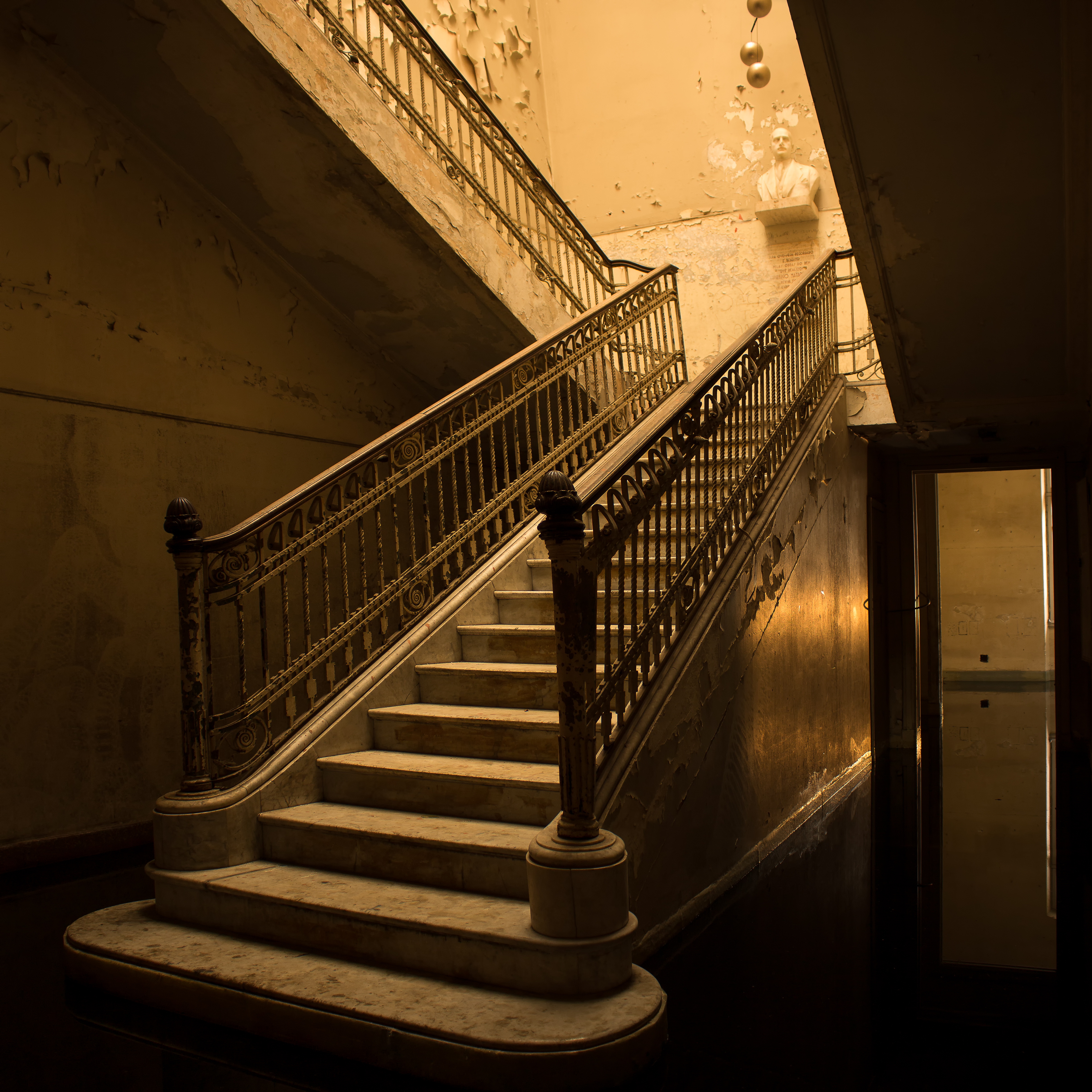 Stairs at Hospital Umberto I